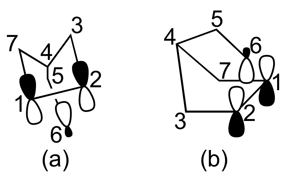 Shows the molecular orbital responsible for non-classical bonding in 2-norbornyl cation.